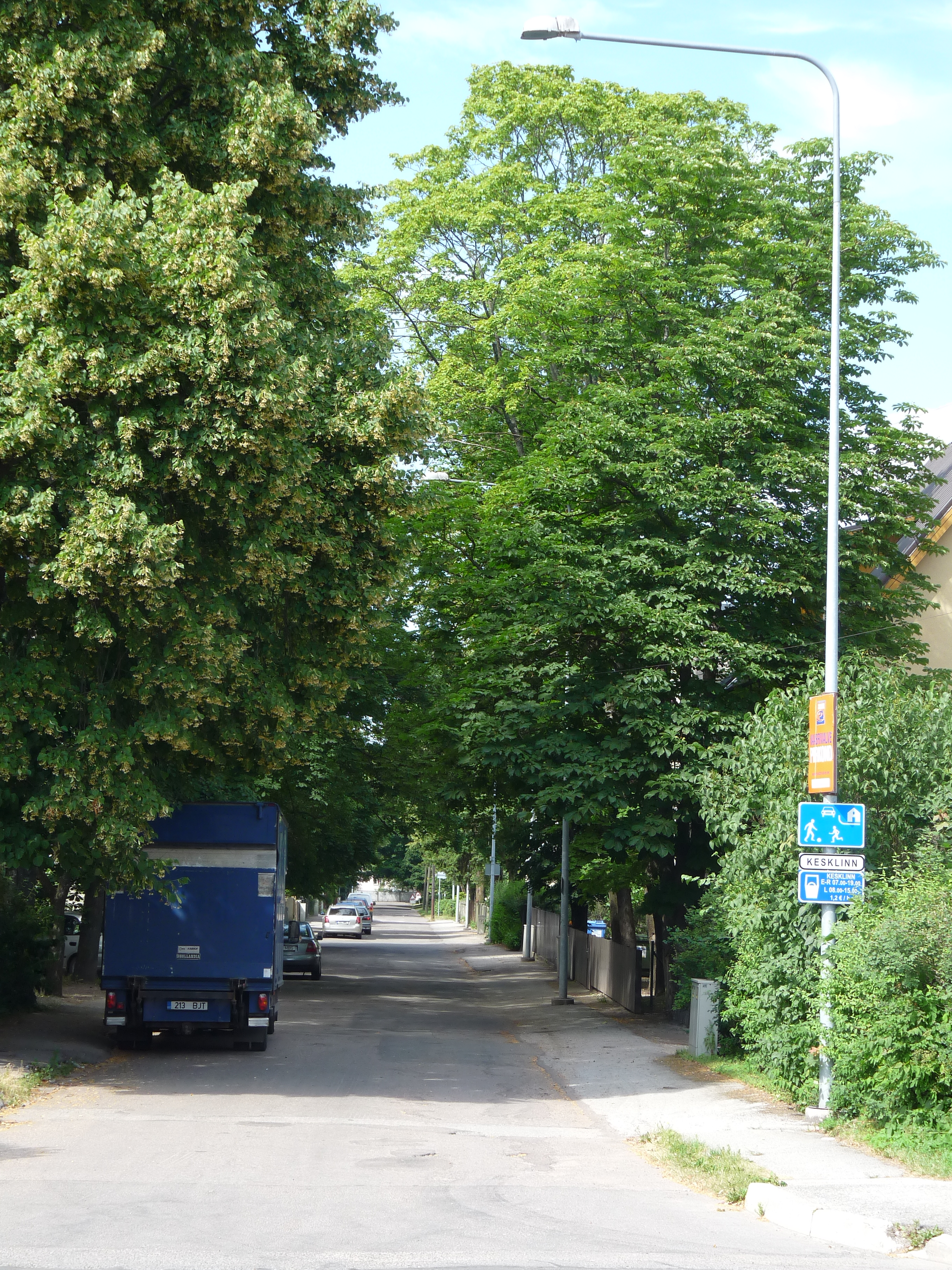 Kodu street in Tallinn, Estonia